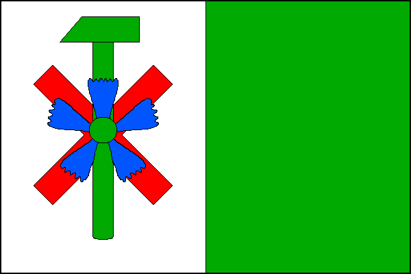 Municipal flag of Kunčice pod Ondřejníkem village, Frýdek-Místek District, Czech Republic.